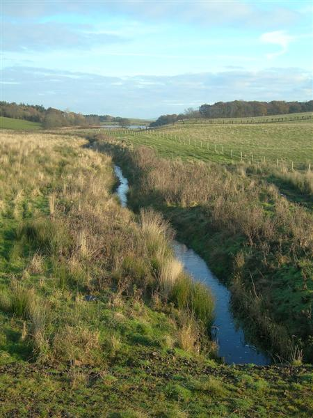 Sinking Bridges Looking along the cleared outlet burn from Martnaham Loch, over the area known as Sinking Bridges.